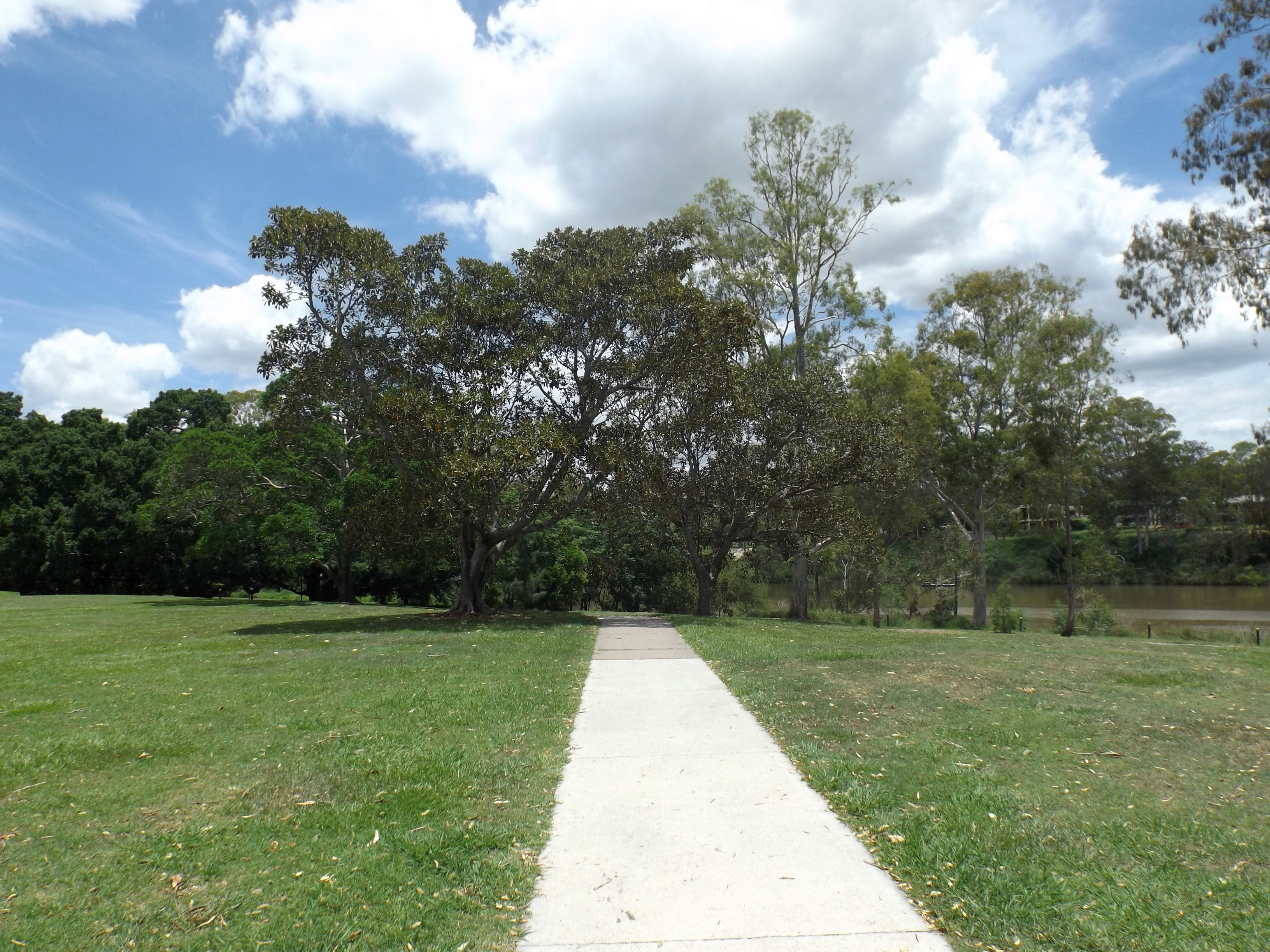 Photo of Moreton Bay figs and path at Sherwood Arboretum in Sherwood, Brisbane, Queensland, Australia.